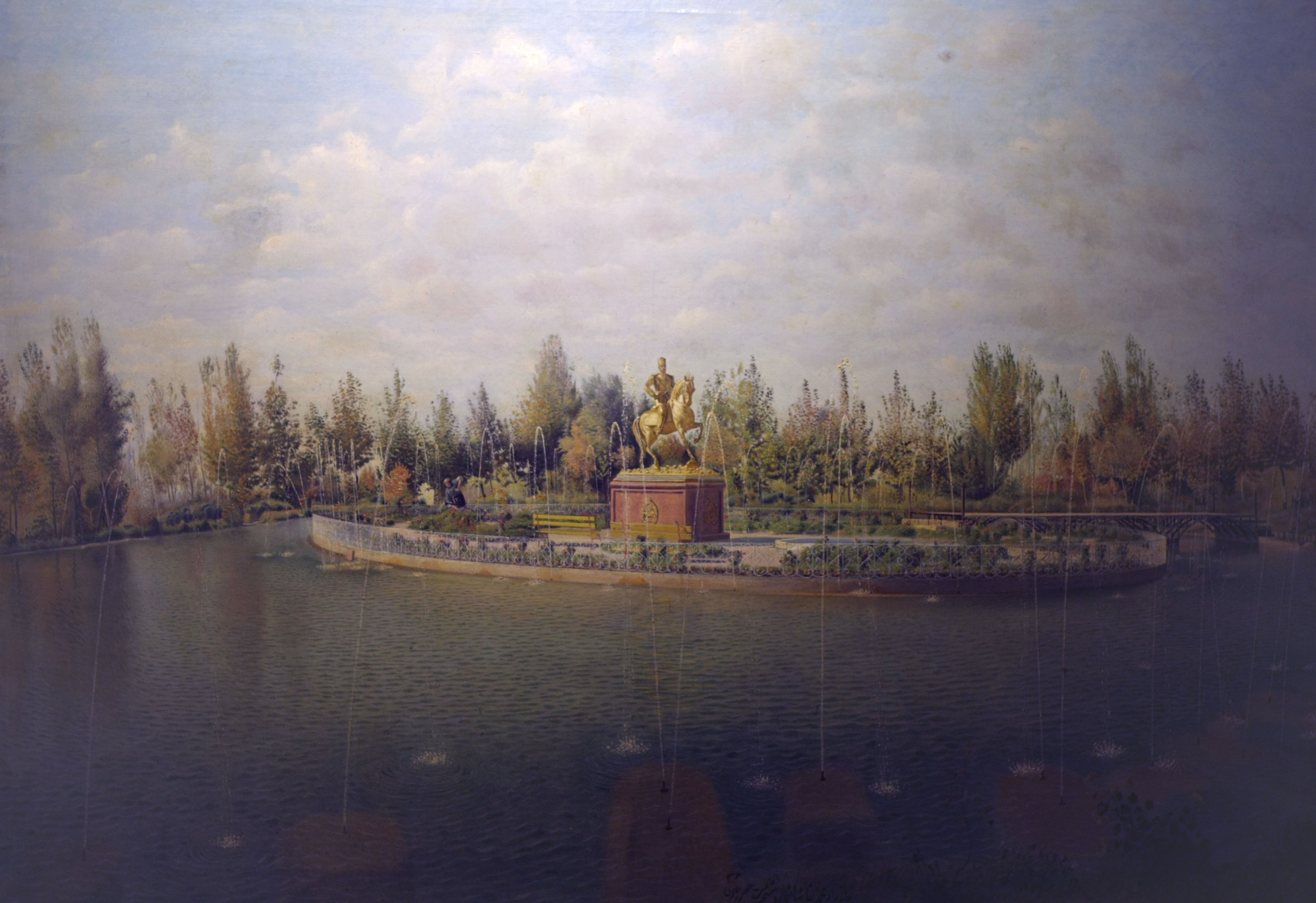 Bagh Shah, A historical squere in Tehran